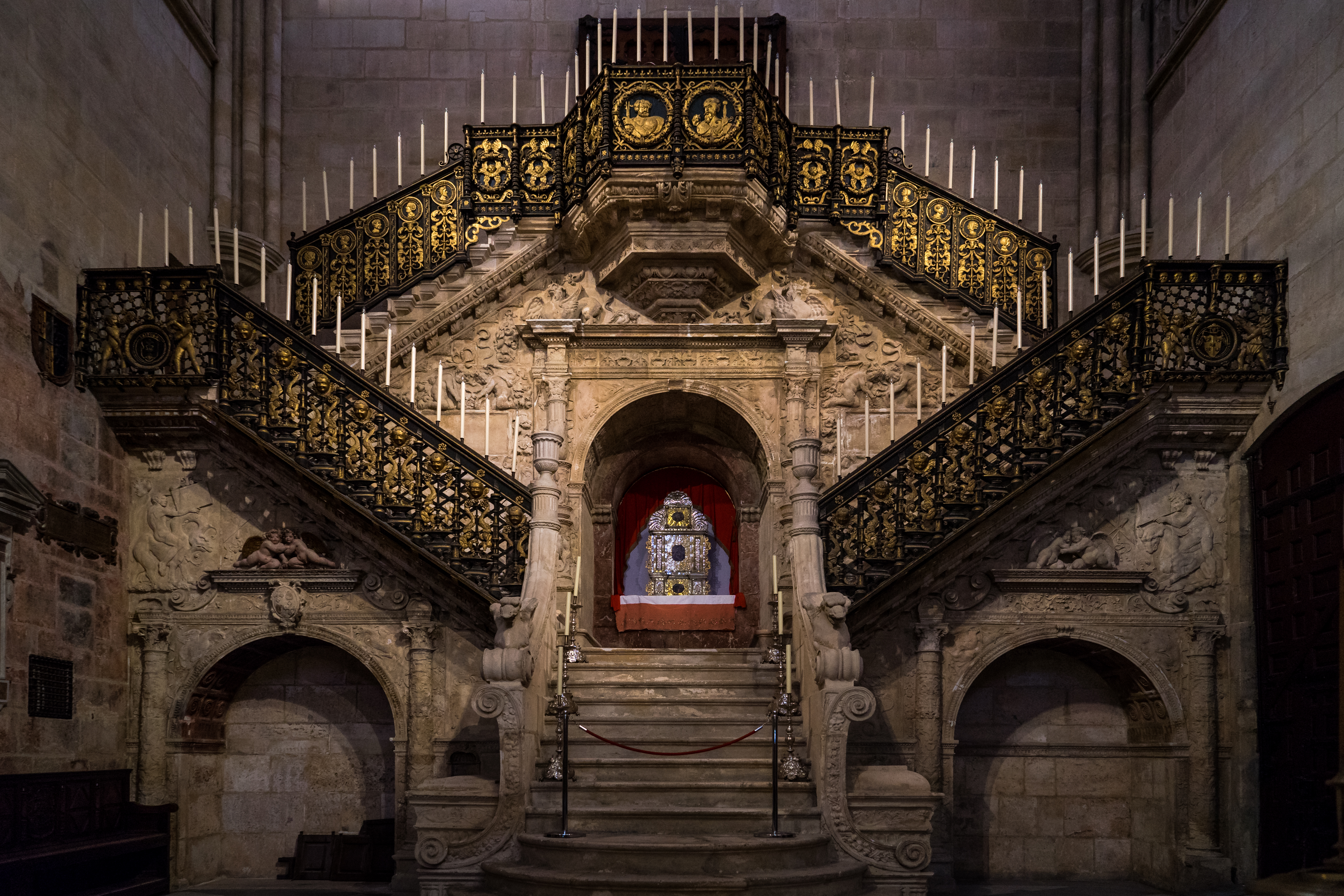 Sony Alpha a7 (ILCE-7) + Carl Zeiss Vario-Tessar T* FE 24-70mm f4 (SEL2470Z) @ 24mm f4 1/60s ISO-800